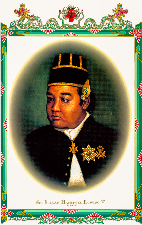 Official Portrait of Sultan Hamengkubowono V